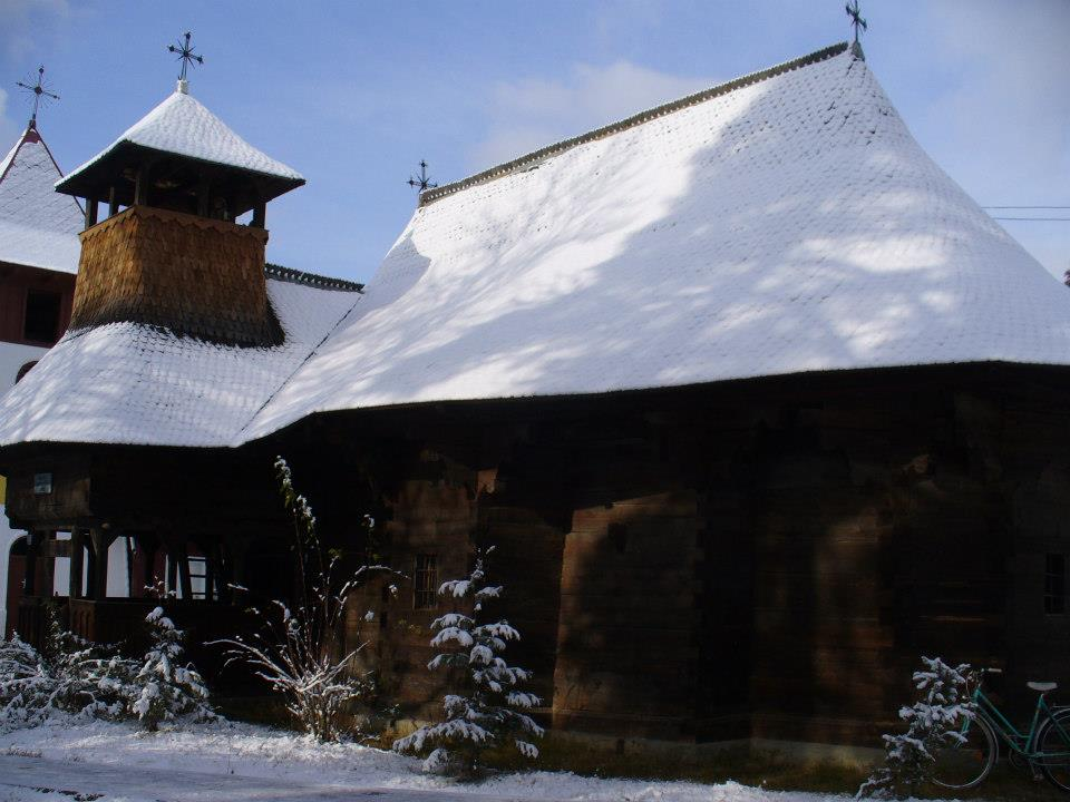 Biserica de lemn din Broşteni